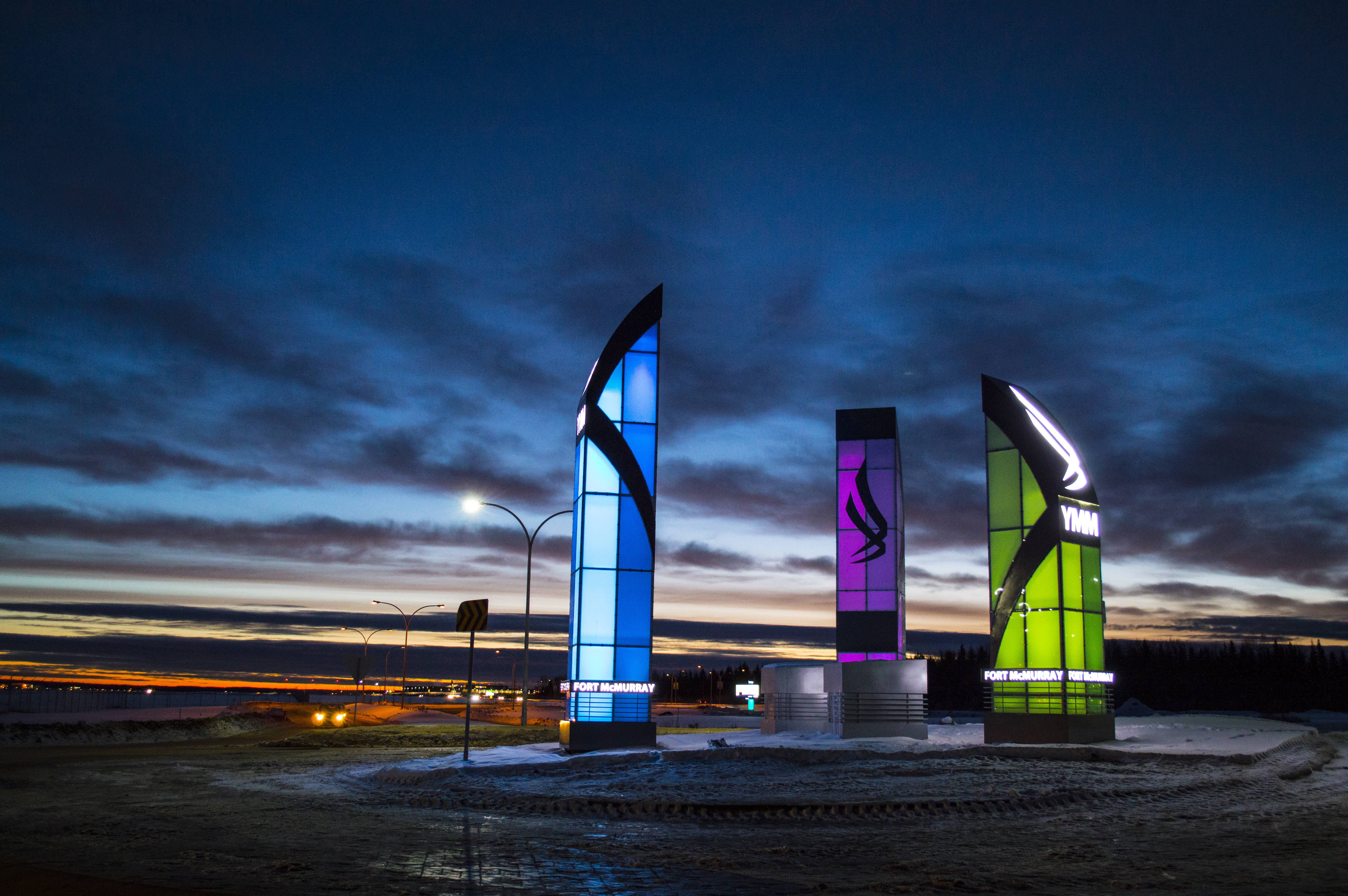 The three illuminated towers are located at the entrance to the Main Terminal of Fort McMurray International Airport.